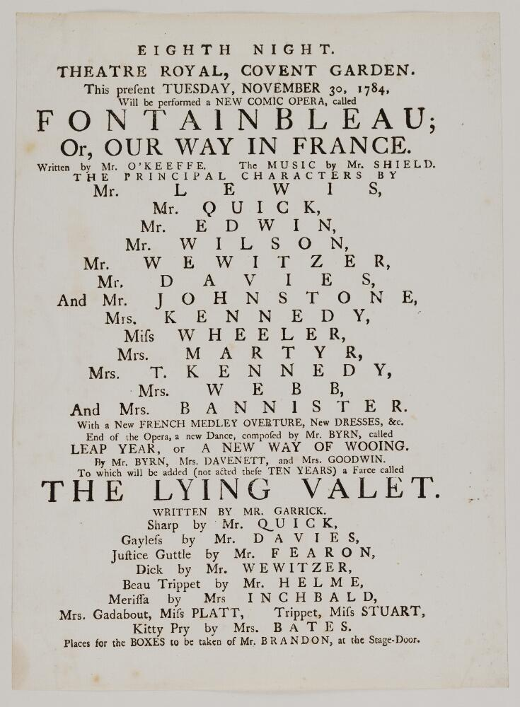 Playbill of Covent Garden, Tuesday, November 30, 1784, announcing Fontainbleau; or, Our way in France &c.; Fontainbleau; or, Our way in France; Leap year, or A new way of wooing; Lying valet; [Playbill of Covent Garden, Tuesday, November 30, 1784, announcing Fontainbleau; or, Our way in France &c.]